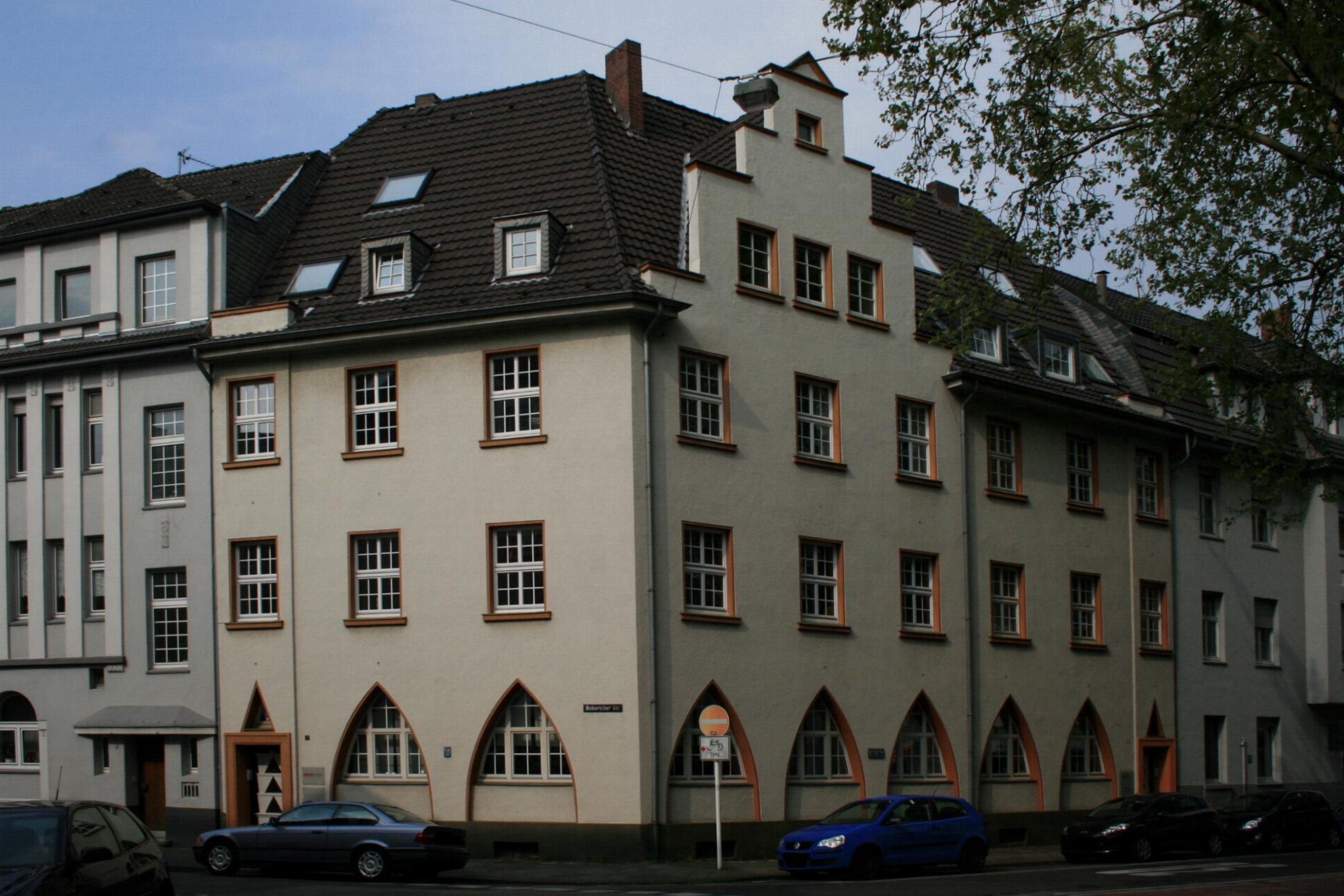 Cultural heritage monument No. A 038 in Mönchengladbach